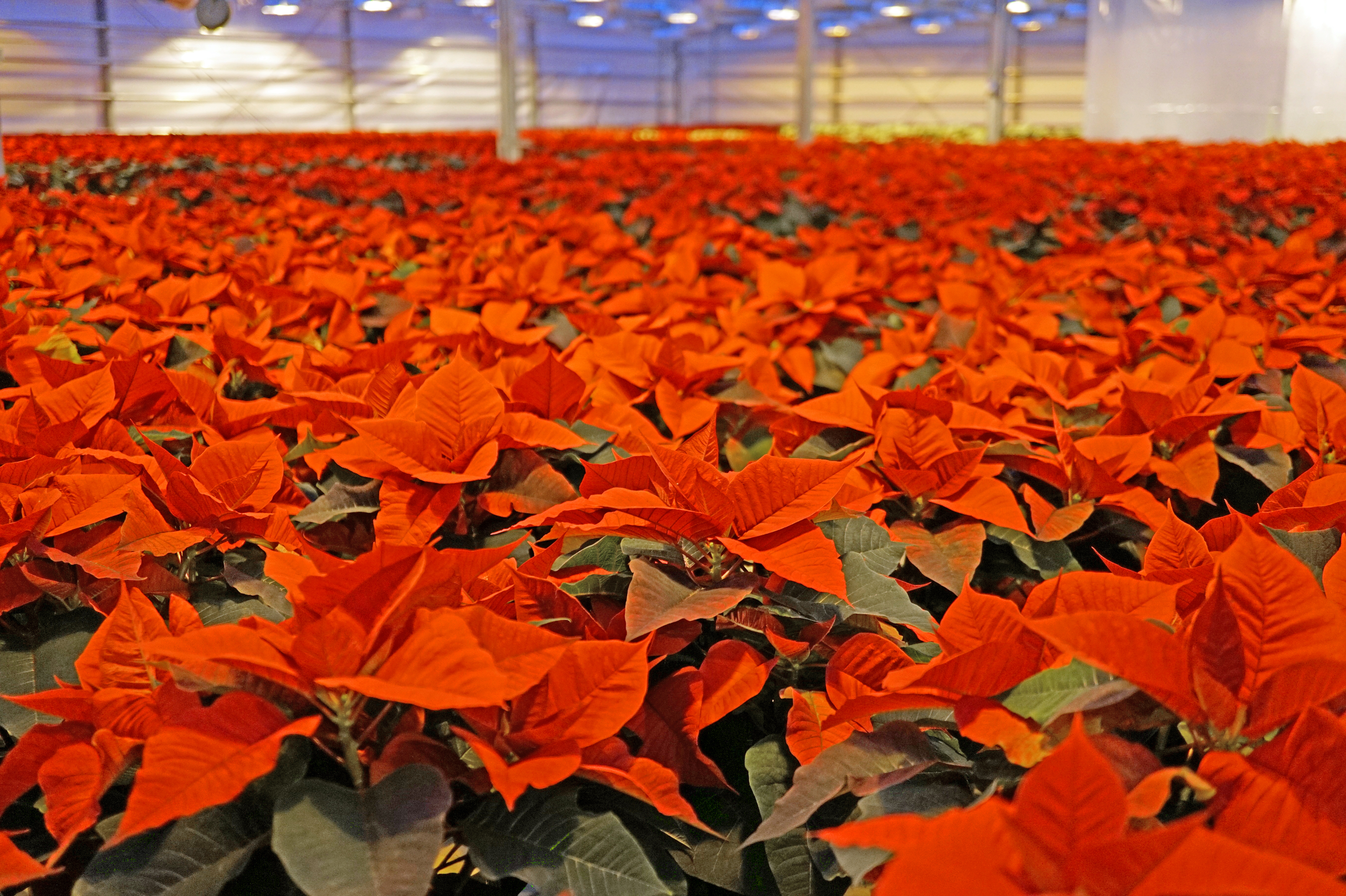 Euphorbia pulcherrima in Viherlandia, Jyväskylä.